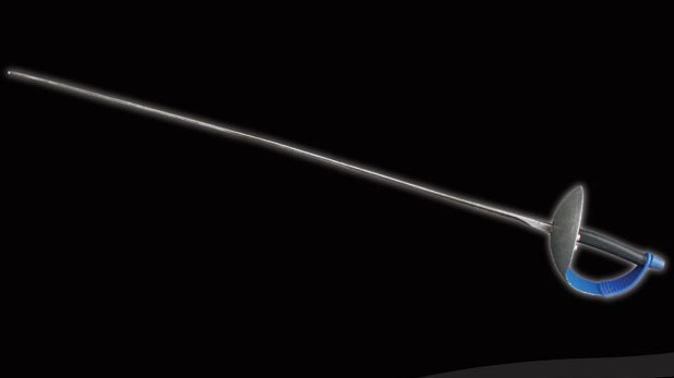 fencing (sabre)